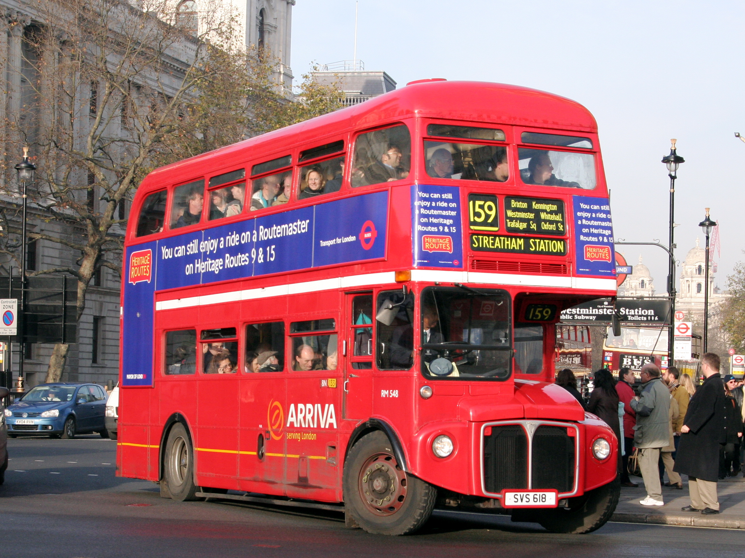 Arriva London South Routemaster bus RM548 (reg. SVS 618), operating London Buses route 159 on the last day of non-heritage Routemaster operation in London. It's pictured here at Westminster tube station making the left turn from Parliament Street (Whitehall) into Bridge Street, en route to Streatham Station.